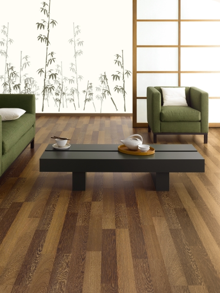 Flooring Image